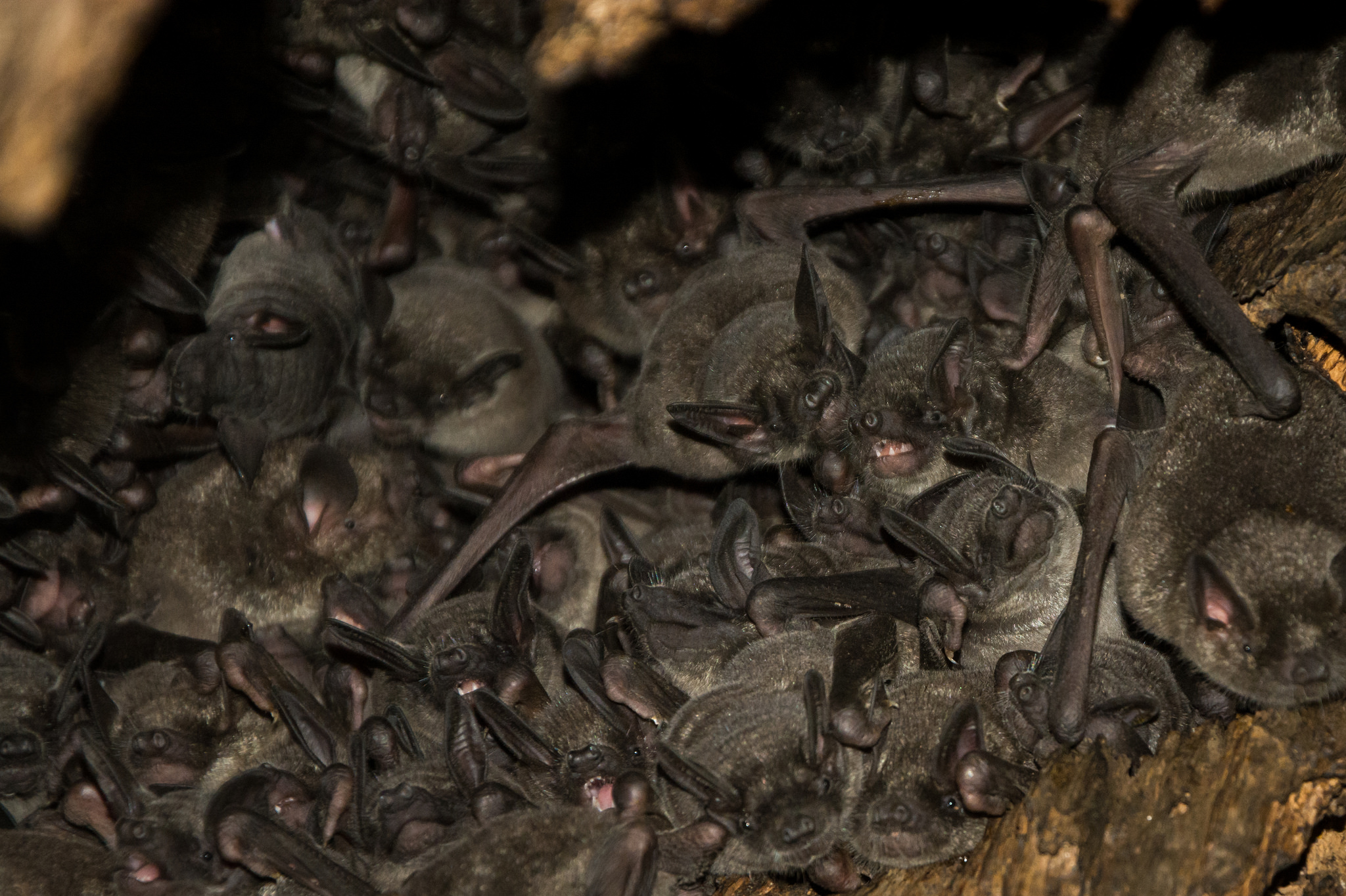 Southern short-tailed bats (Mystacina tuberculata), or pekapeka-tou-poto, in a communal roost tree, on Codfish Island / Whenua Hou, New Zealand. Photo: Jake Osborne